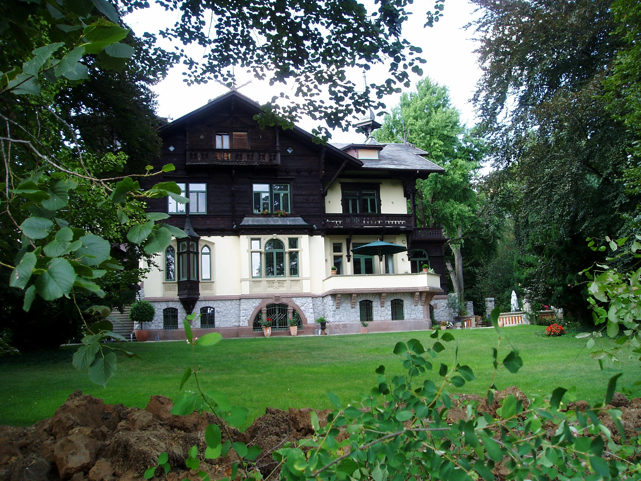 Bönnigheim: Villa_Amann ("Schweizer Stil") - former residence of Alfred Amann